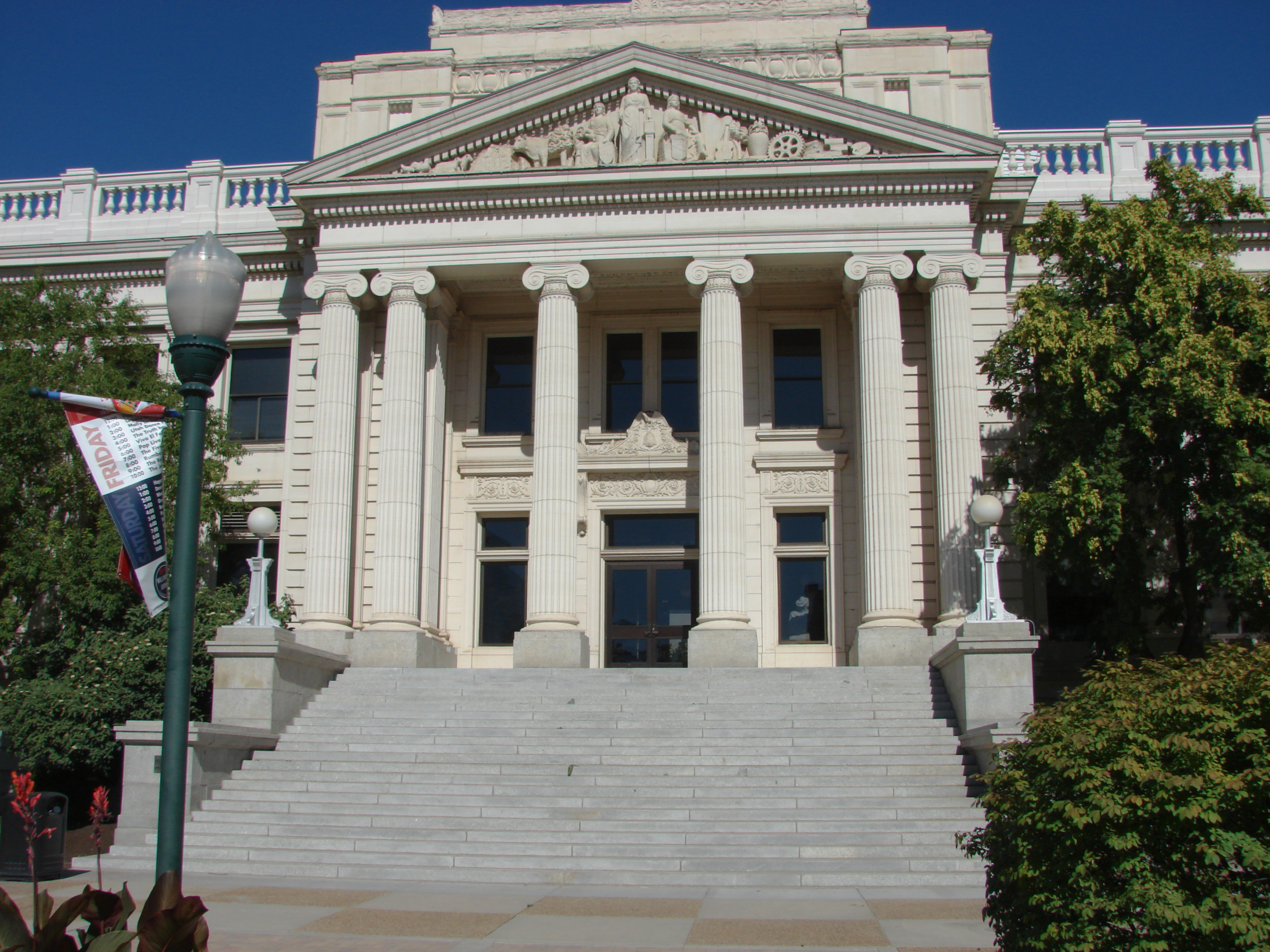 Looking east (closer) at the front entrance of the Historic Utah County Courthouse in downtown Provo, Utah, July 2015